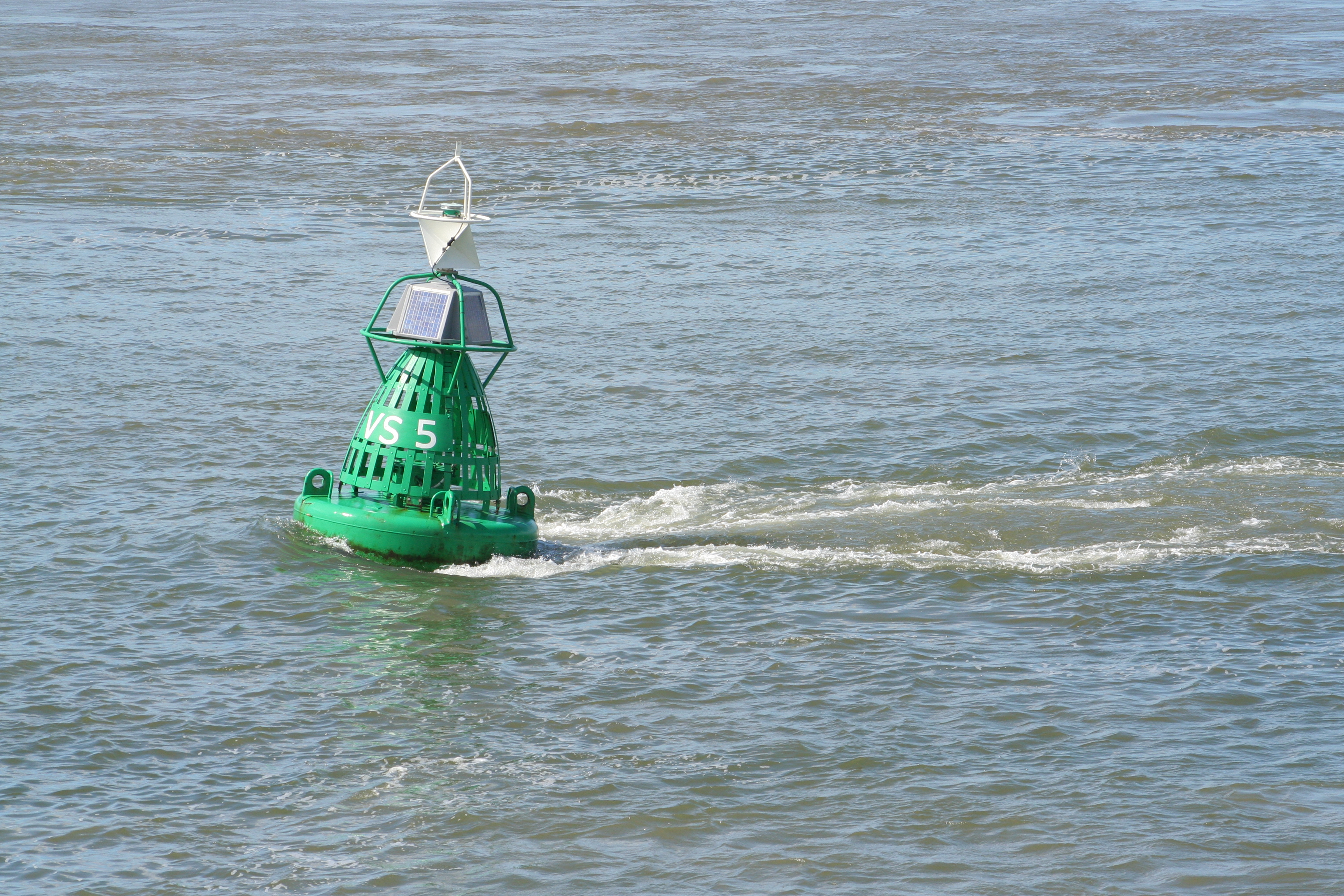 Buoy VS5 in the Vliestroom near Vlieland (the Netherlands)